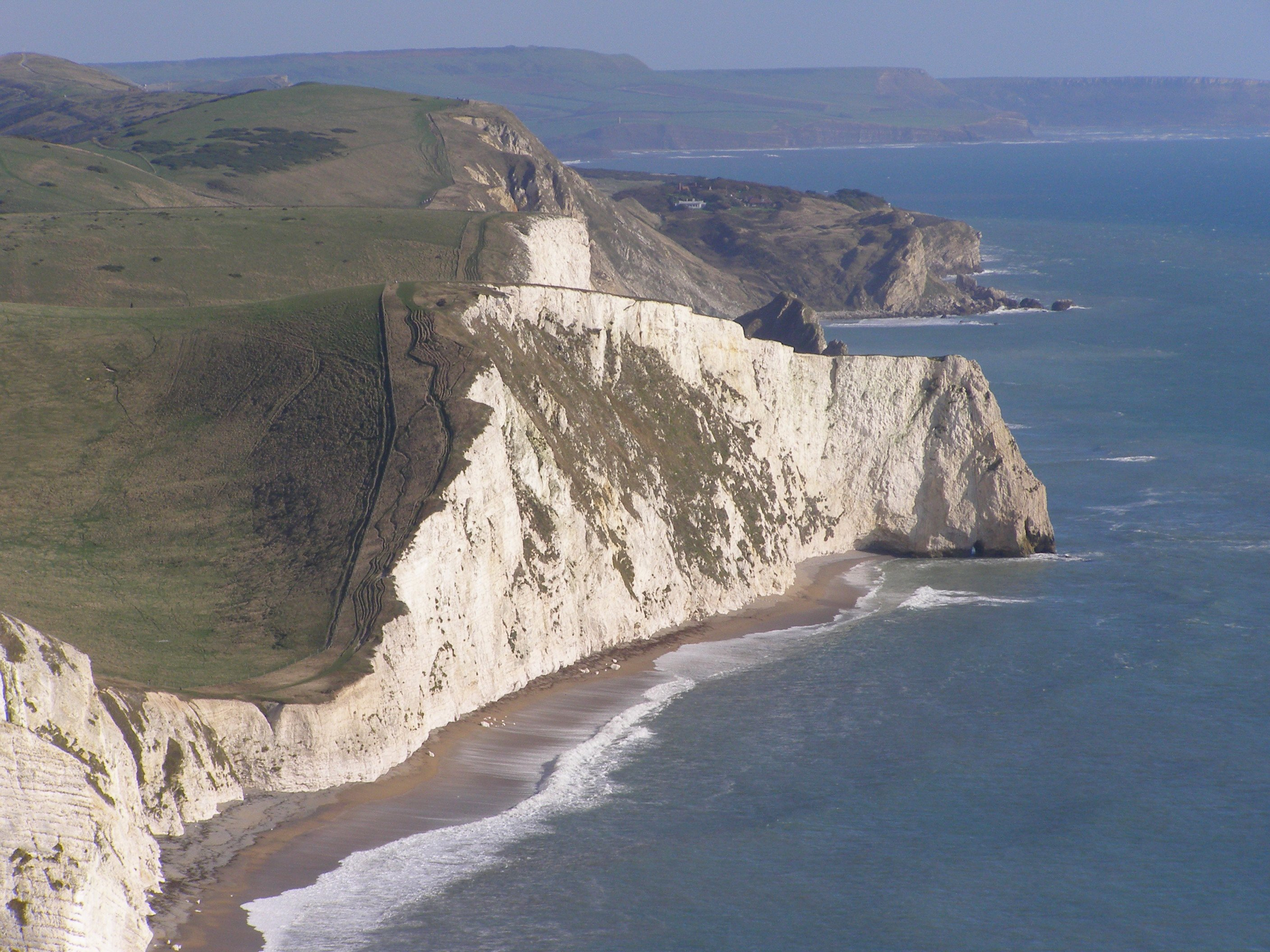 Bat's Head, looking east from White Nothe, Dorset